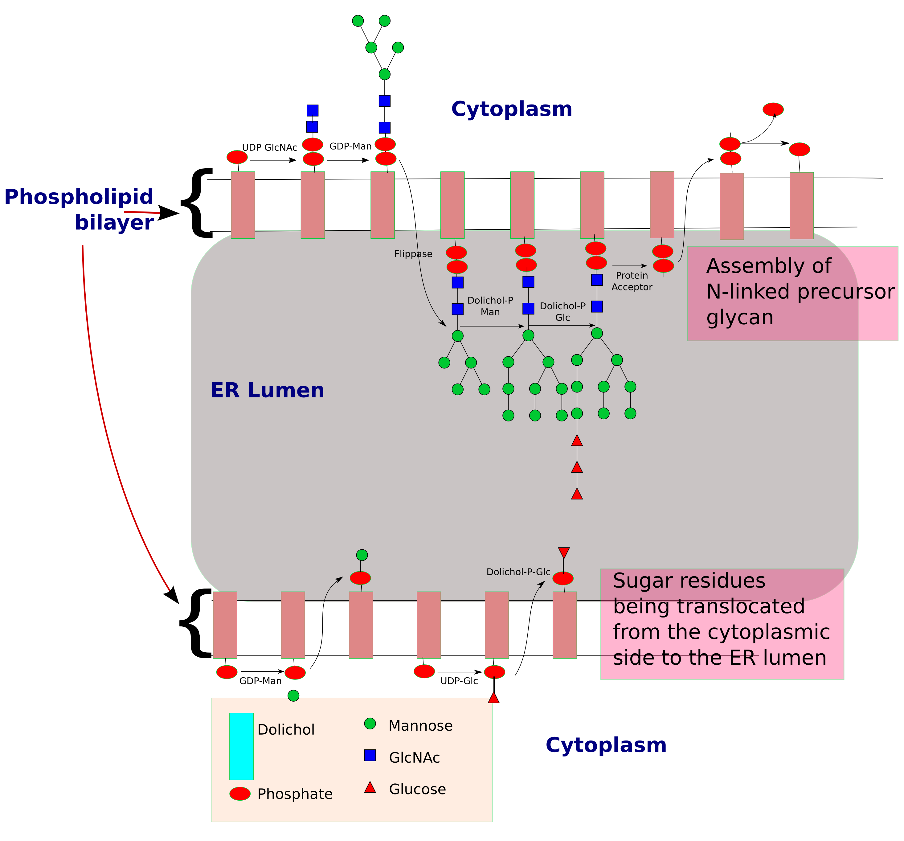 Diagram shows the precursor oligosaccharide synthesis in the ER lumen during N-linked glycosylation